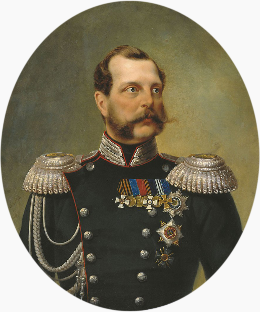 Tsar Alexander II